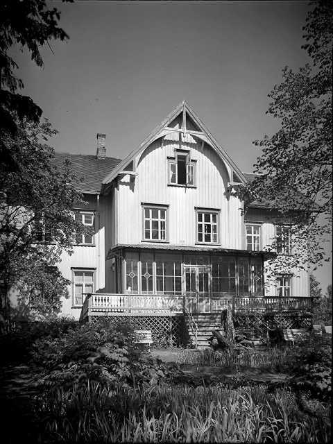 Photo of Meyergården hotell, Mo i Rana, Nordland, Norway